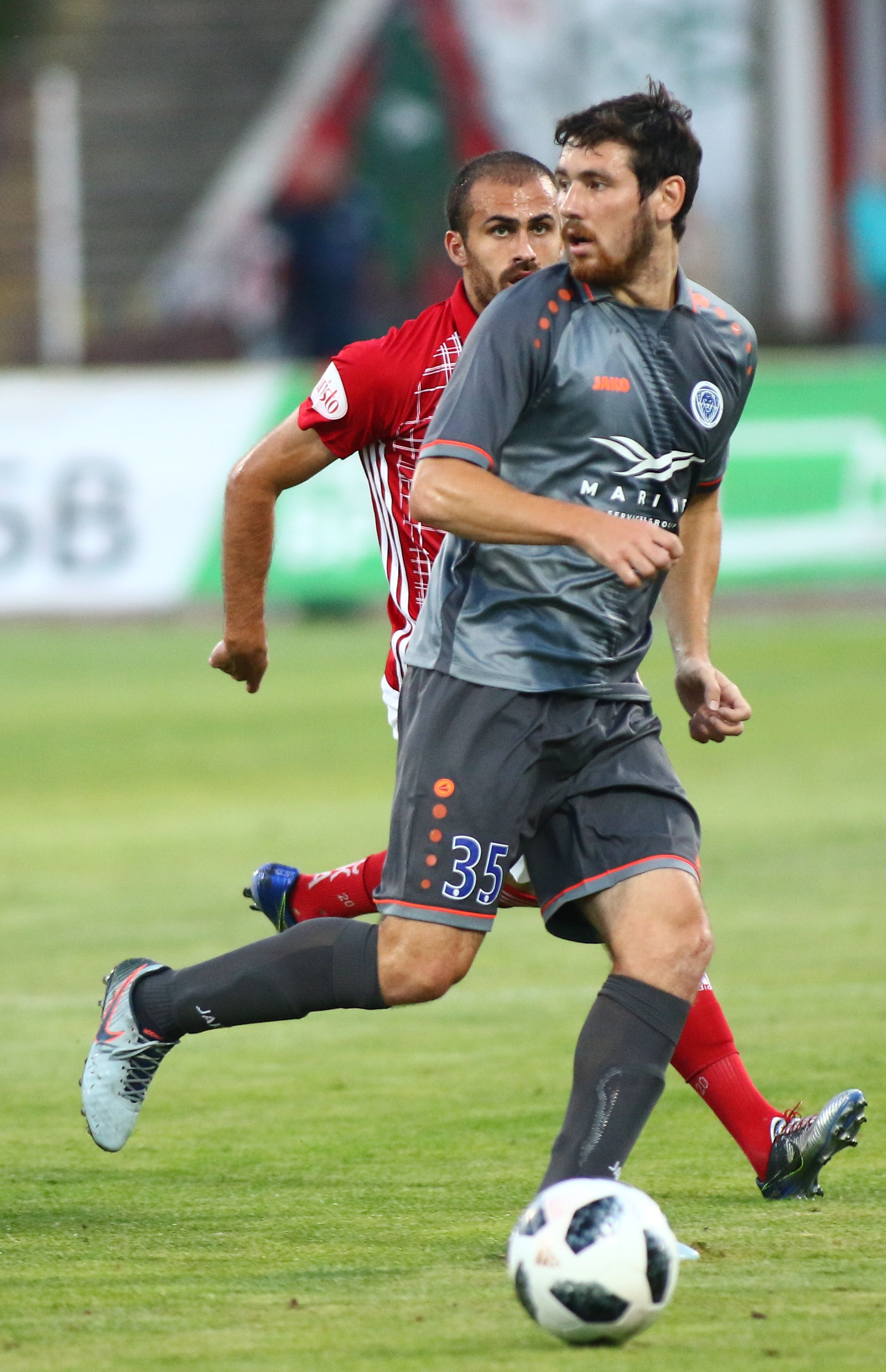 Ivan Vladimirovich Yenin (Russian: Иван Владимирович Енин; Ukrainian: Іван Володимирович Єнін; born 6 February 1994 in Kherson, Ukraine[1]) is a Ukrainian-born football midfielder. He plays for NK Široki Brijeg.